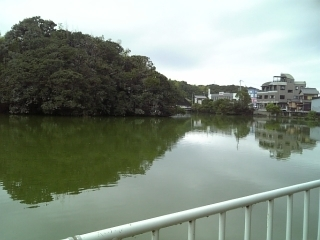 Susa jinjya